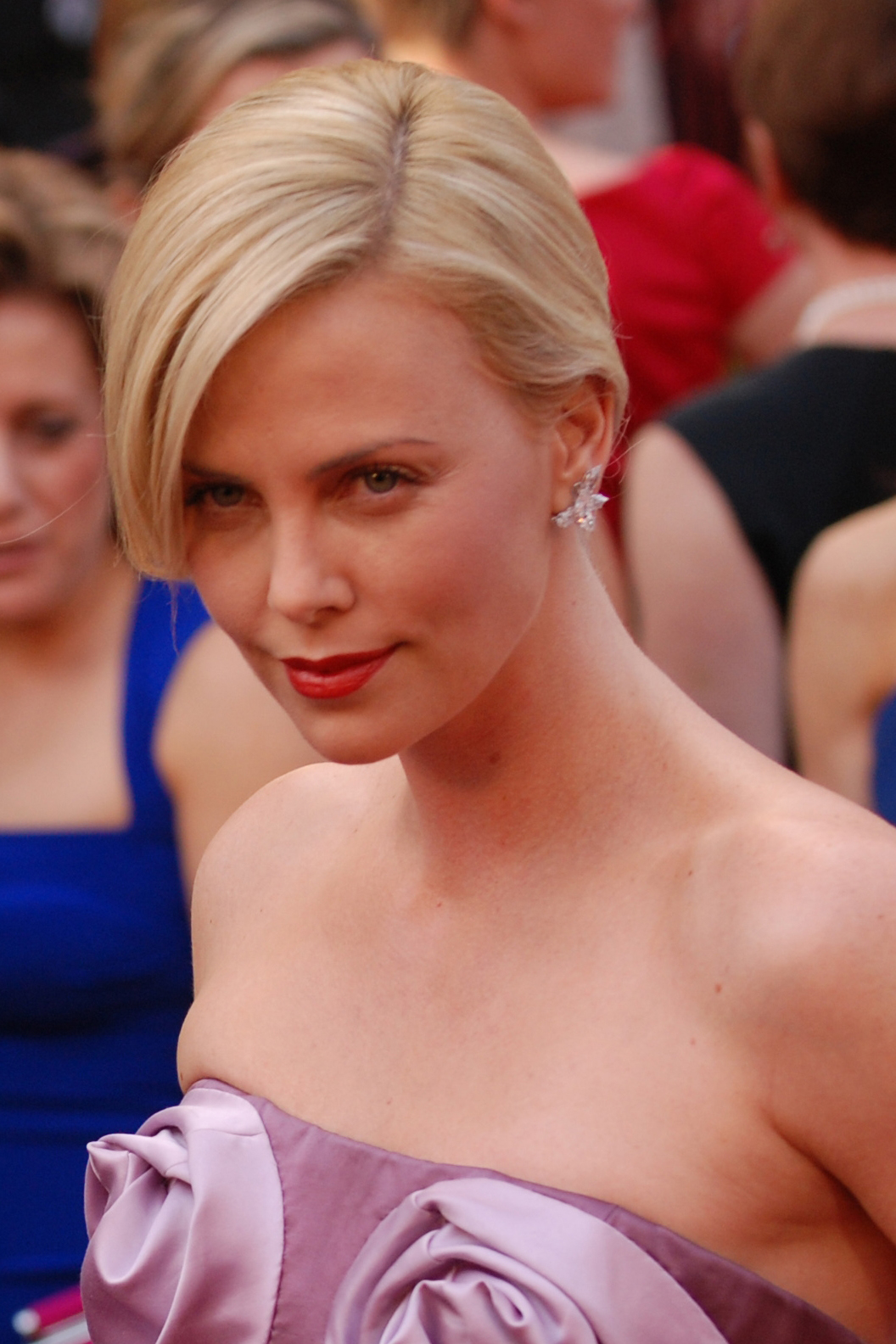 Charlize Theron strikes a red-carpet pose at the 82nd Academy Awards, March 7, in Hollywood, Calif.